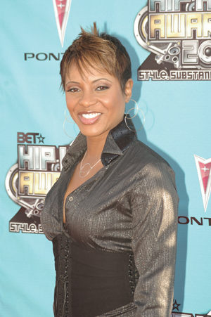 MC Lyte at the BET Hip Hop Awards in Atlanta. October 14, 2007. Photo by Travis Hudgons/PictureAtlanta.Net